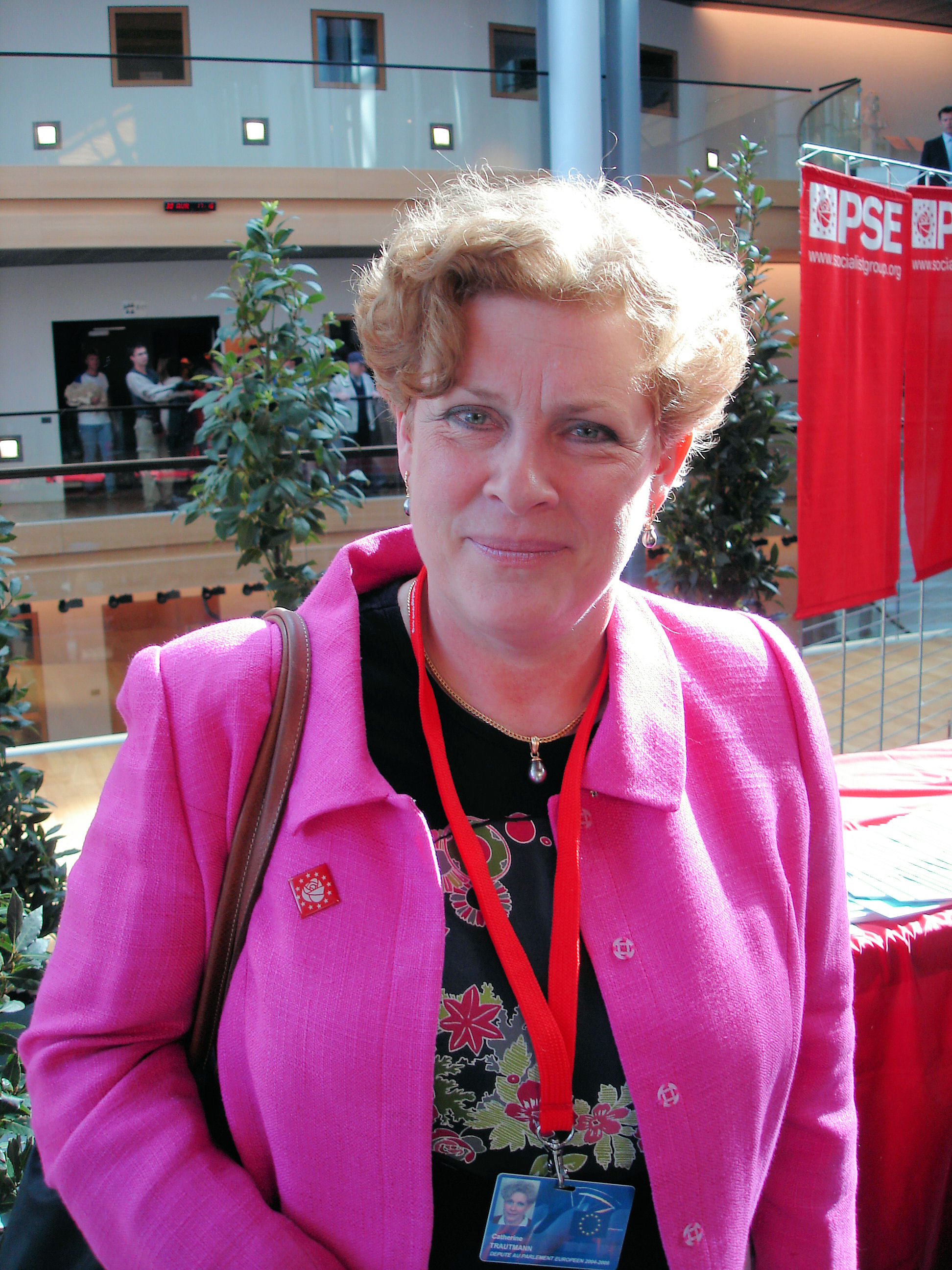 Catherine Trautmann, French Euro-deputy, former mayor of Strasbourg, former French Minister of Cultural Affairs. Photo taken during the operation "Parliament open to all", 29 april - 1st may 2006, in the entrance of the European Parliament, Strasbourg.